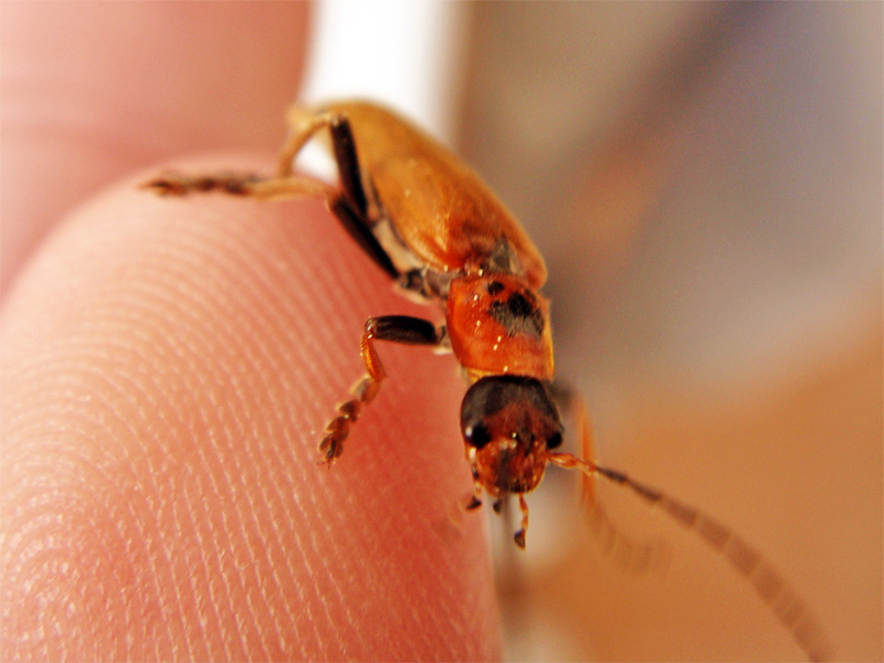 Cantharis coronata in Ansião, Leiria, Portugal